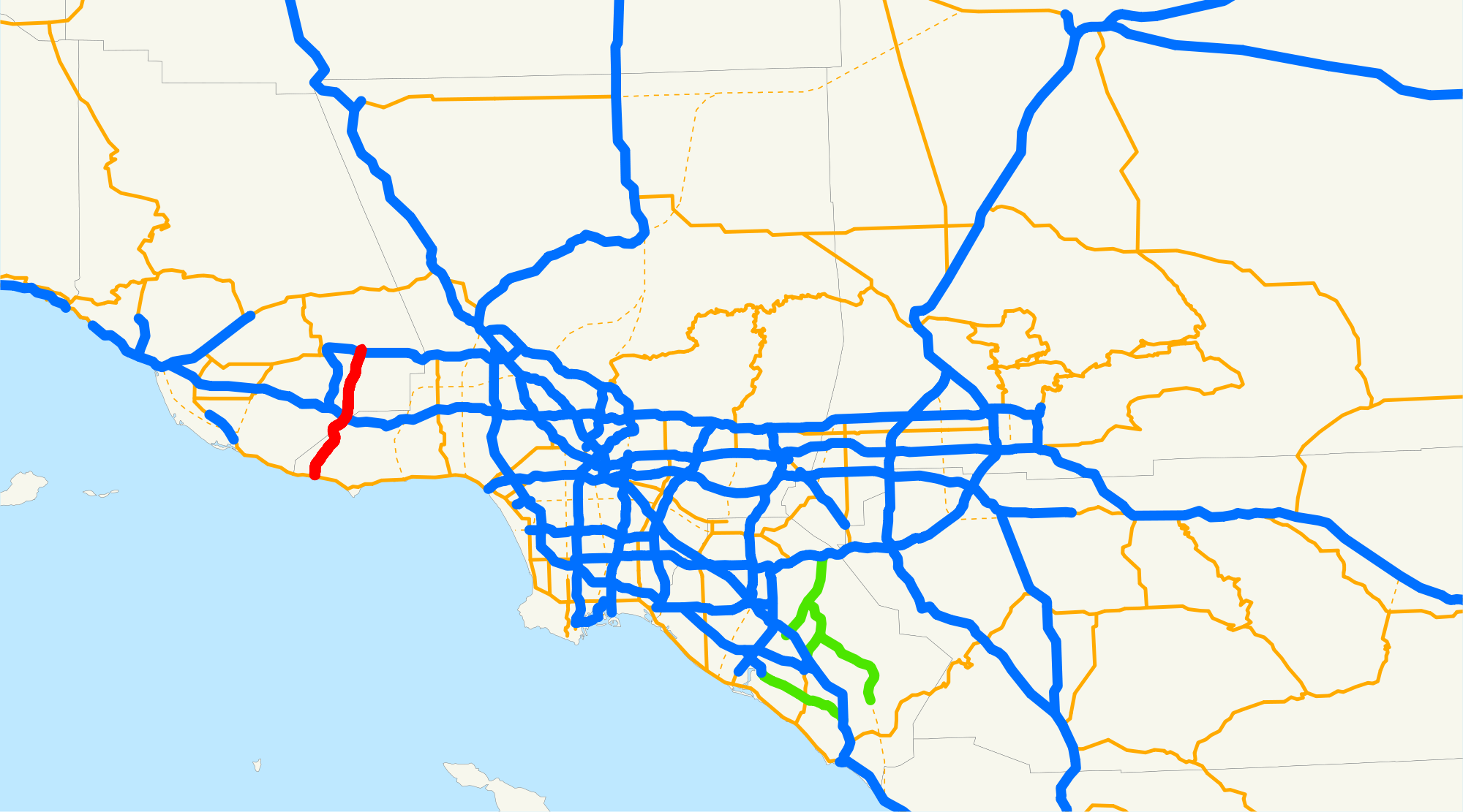 The proposed and never built Decker Freeway (in red). Through Decker Canyon and the Category:Santa Monica Mountains — Southern California.